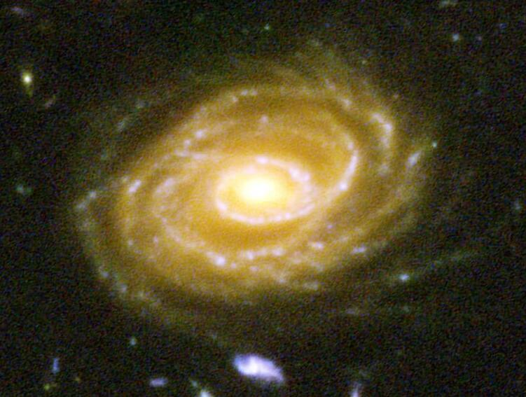 Hubble Space Telescope image of the spiral galaxy UDF 423. UDF 423 is one of the brightest galaxies in the Hubble Ultra Deep Field with a Light travel time of 7.7 billion years.